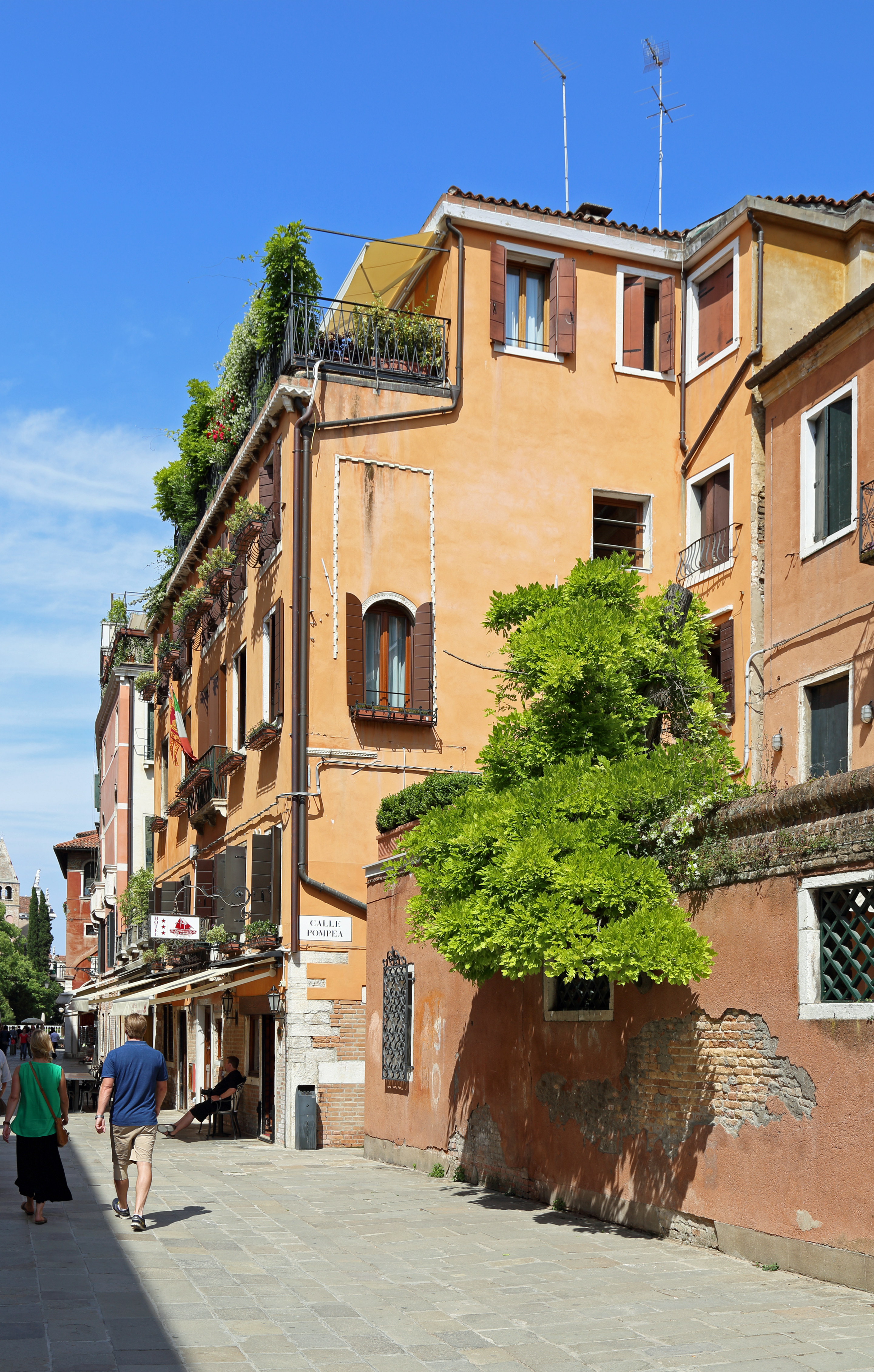 Venice (Italy): Rio terà Antonio Foscarini